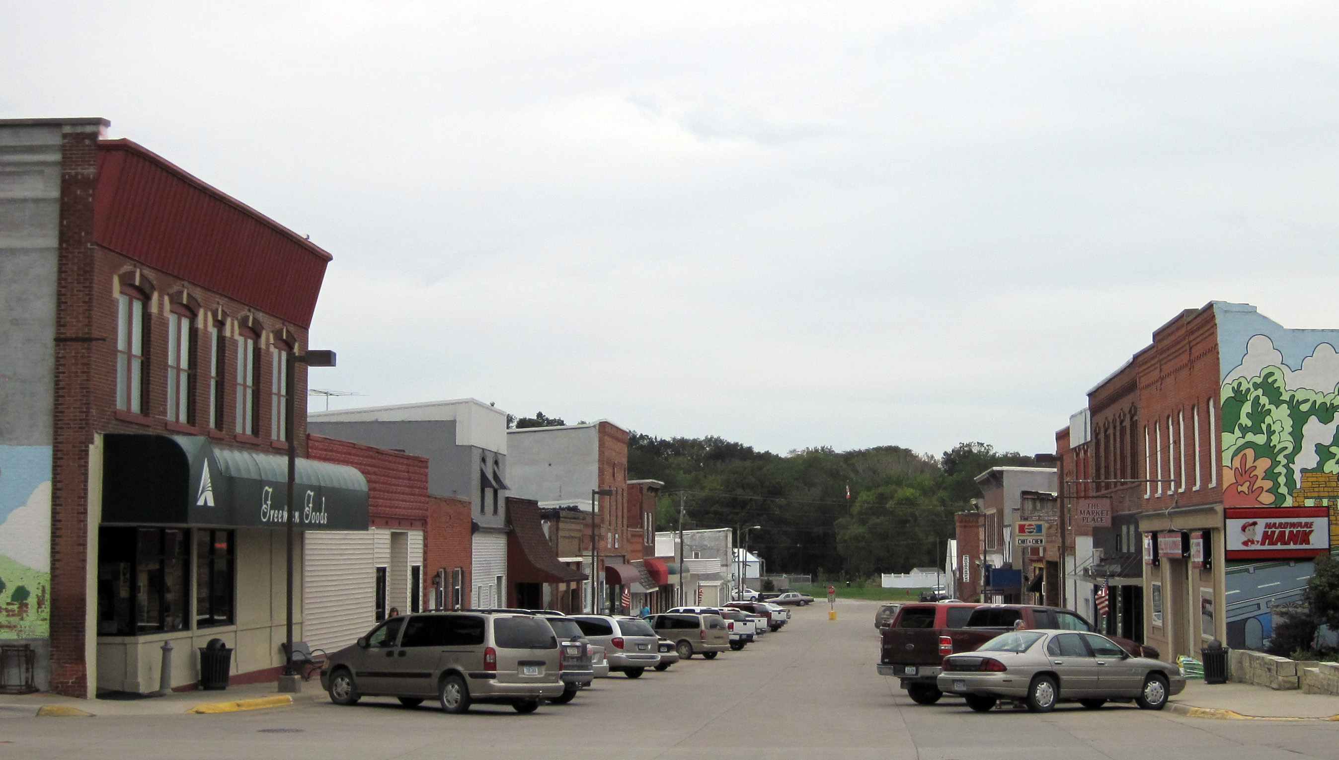 Wellman